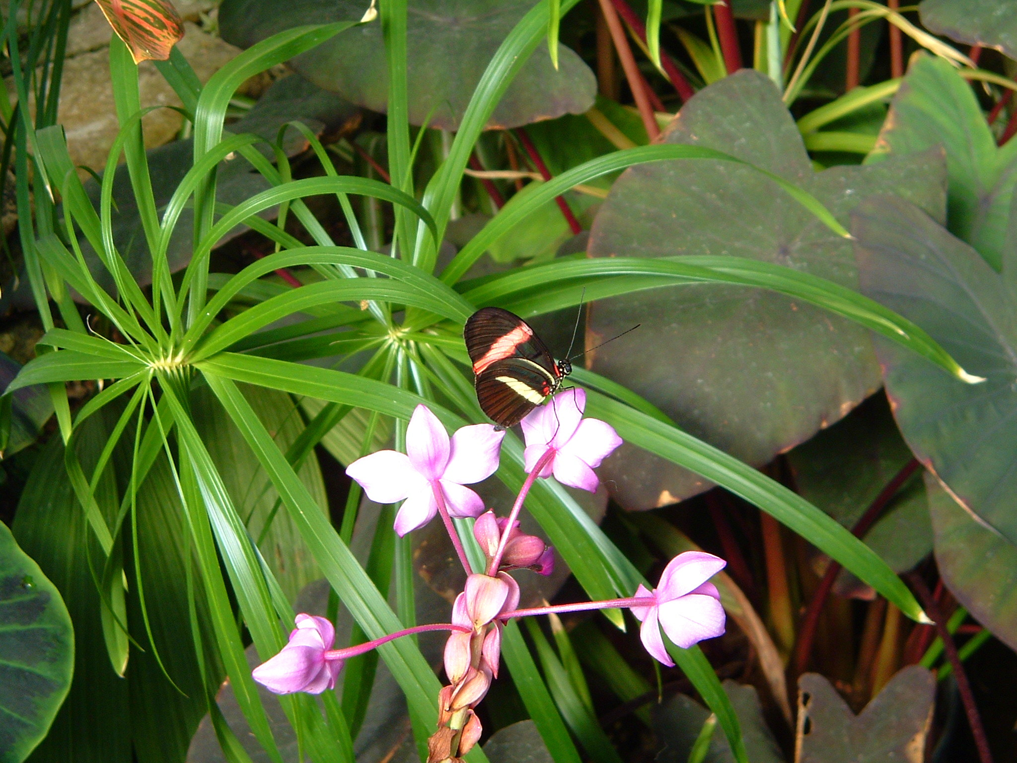 A Butterfly at the Franklin Park Conservatory, Columbus during the Blooms and Butterflies exhibit. Self made photo, attribution REQUIRED when re-using or re-publishing.